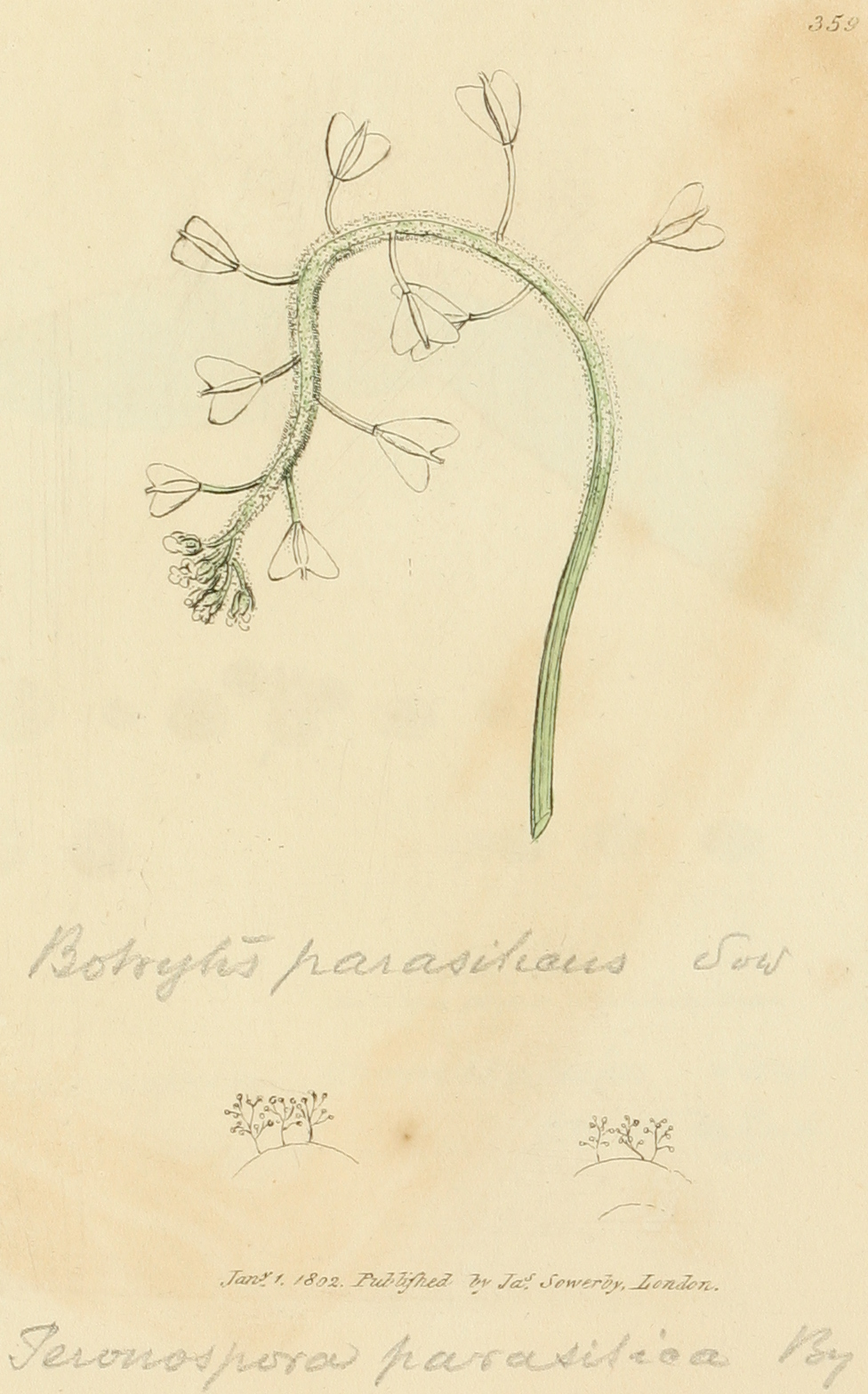 This is a plate from James Sowerby's Coloured Figures of English Fungi or Mushrooms.